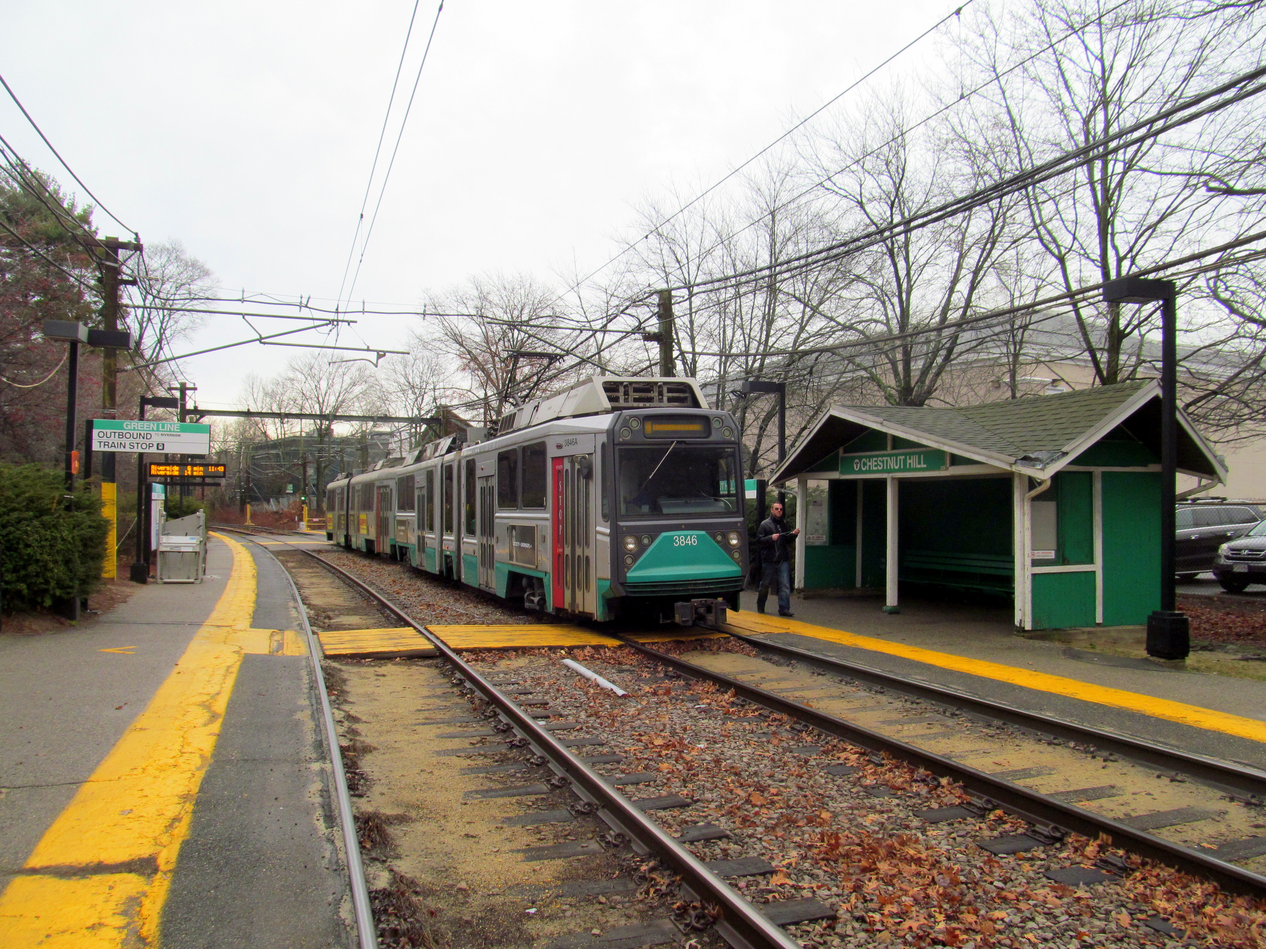 An inbound train at Chestnut Hill station in December 2015